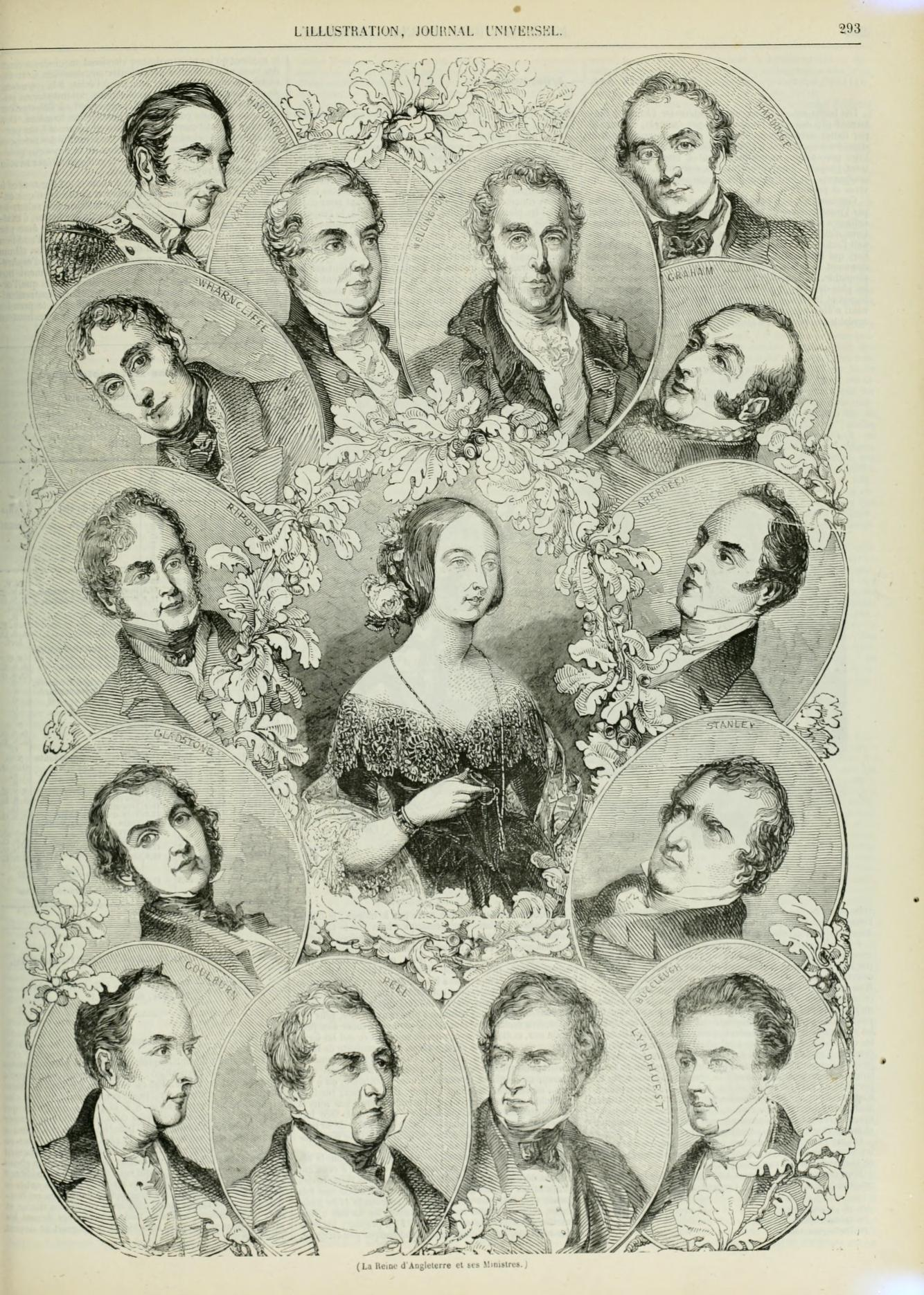 Engraving showing the members of Sir Robert Peel's government in 1844. Published in the French magazine L'Illustration Journal Universel, 4 July 1844 issue (possibly taken from a British newspaper).